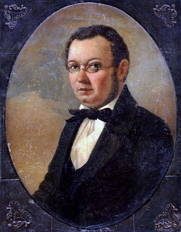 Pyotr Pavlovich Yershov (1815 – 1869) – a Russian poet, novelist and playwright. Lifetime portrait of Pyotr P. Ershov by Nikolay Madzhi (Maggi) (end of 1850s), is considered as the most reliable image of the author of «The Little Humpbacked Horse». Nikolay Gaetanovich Madzhi (Nicola Maggi) was the son of Gaetano Maggi, a Venetian forced to emigrate to Russia following the Austrian occupation of 1849. He passed the final exams at the St. Petersburg Imperial Academy of Arts. This portrait was discovered i 2004 in the manuscript department of the Russian National Library in St. Petersburg, from the archive of collectors Alexei Fedorovich and Peter Kartavovyh The undated portrait has a size of 26 by 20 cm, oil on cardboard and framed by an oval. It shows a middle-aged Ershov against the sky with pink clouds, wearing a black coat, white shirt and a tie.